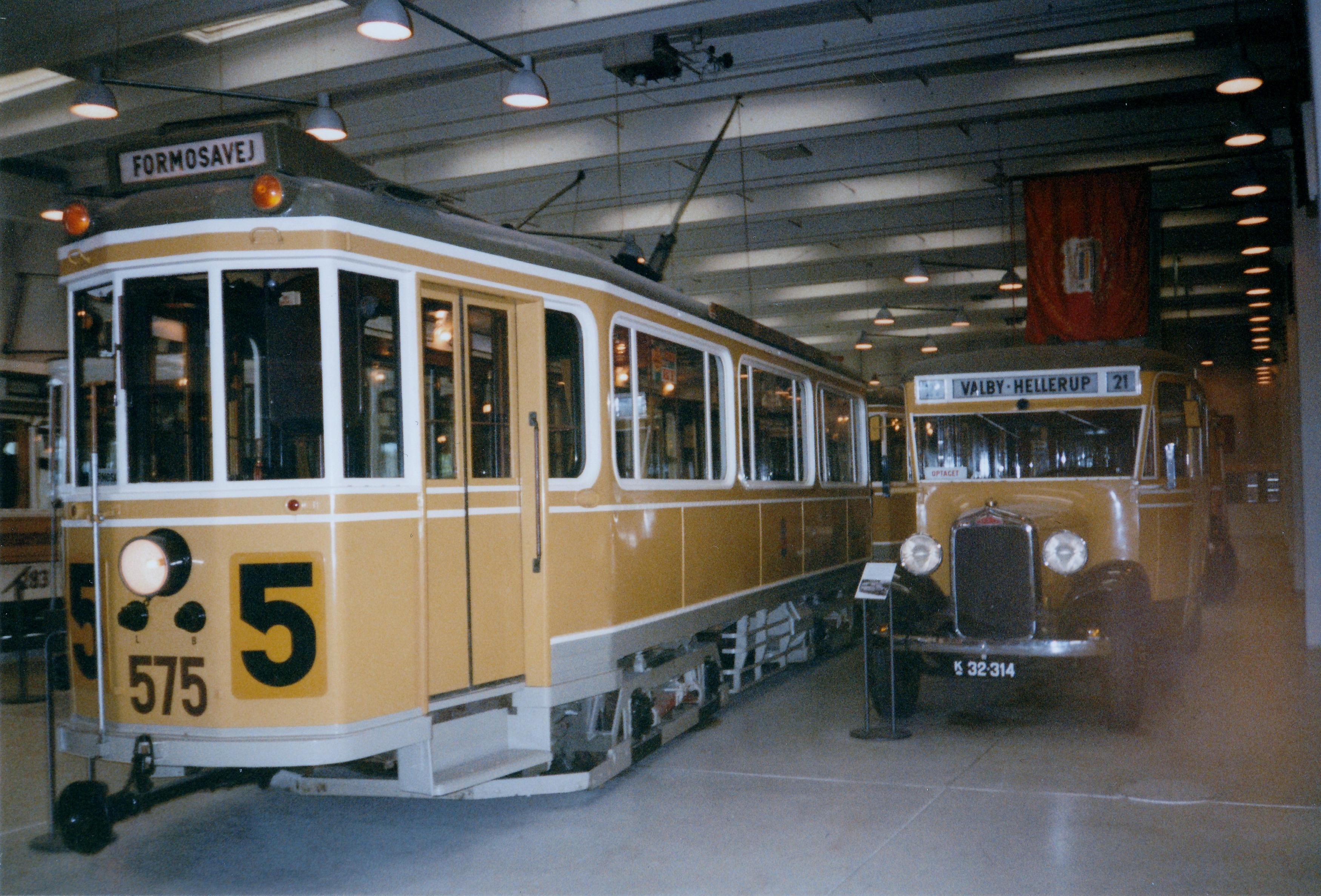 Old tram of Copenhagen, KS 575 from 1938, and old bus from Copenhagen, KS 314 from 1934, at HT Museum in Rødovre in Copenhagen. The museum existed from 1984 to 2003. Then the whole collection was handed over to Sporvejsmuseet Skjoldenæsholm.